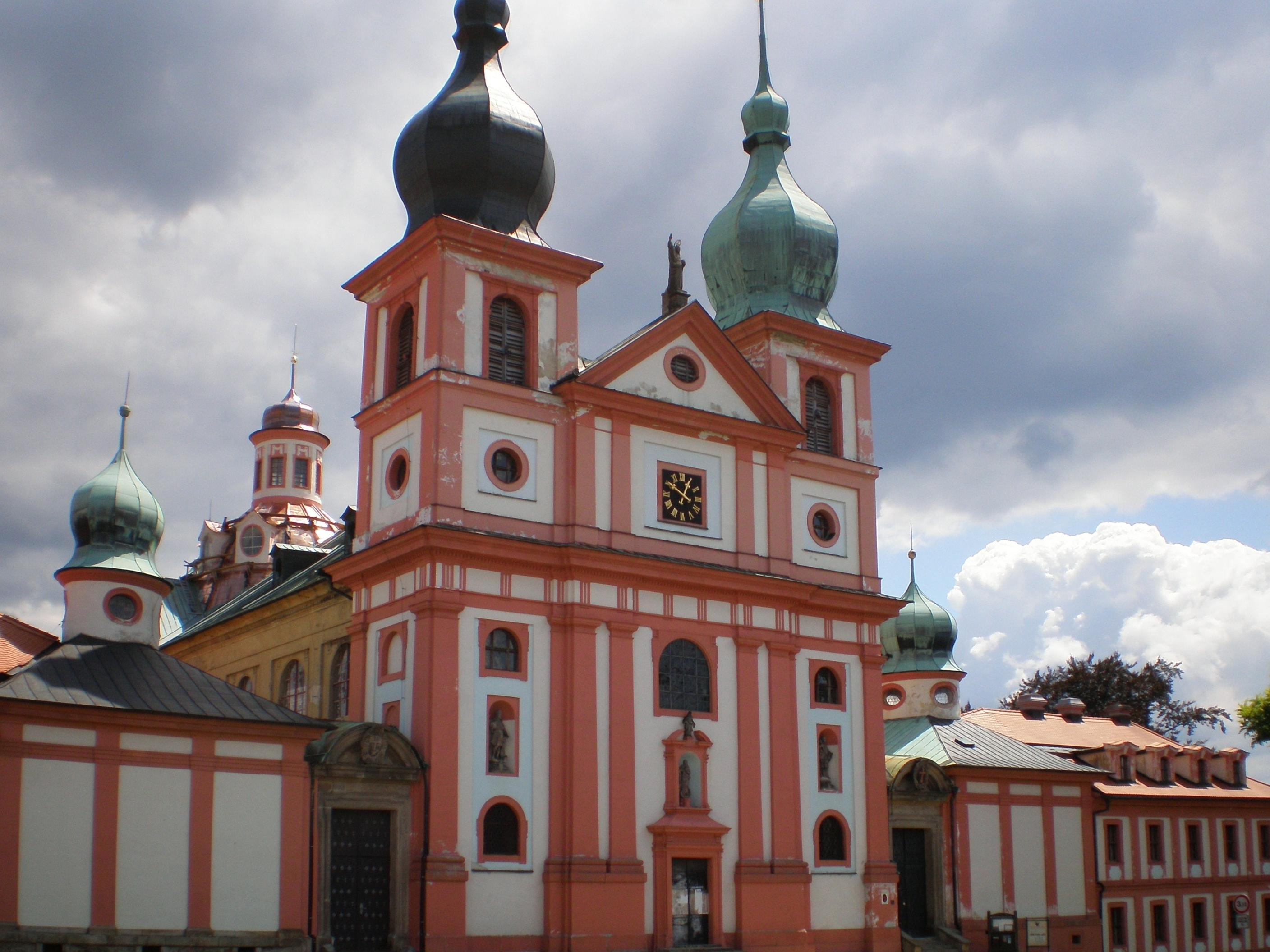 Pilgrimage church of the Assumption of the Virgin Mary and Saint Mary Magdalene in Chlum Svaté Maří, Sokolov District, Czech Republic.